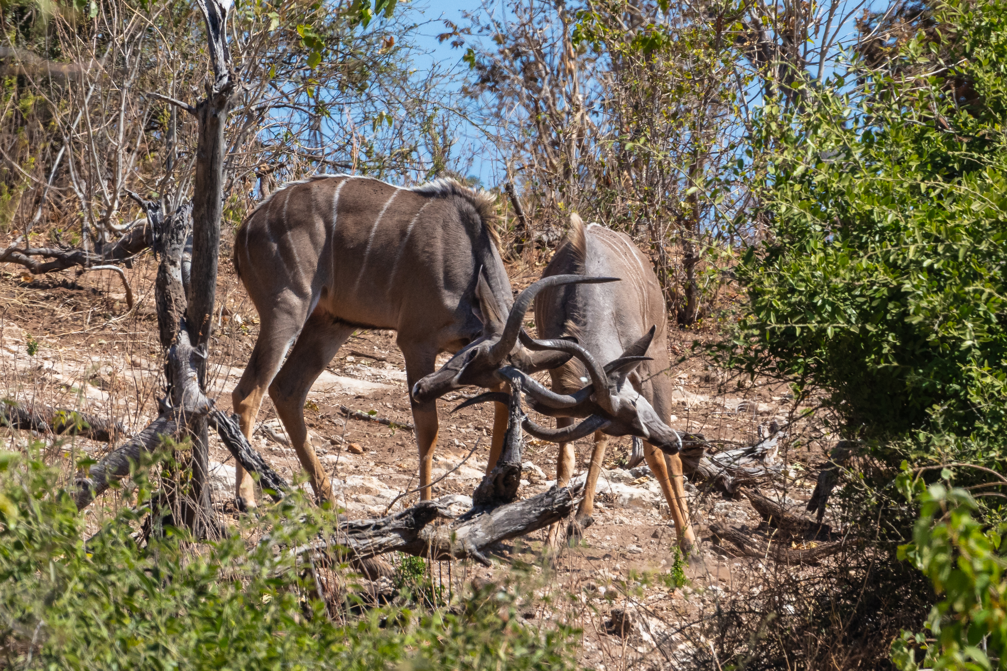 Greater kudus (Tragelaphus strepsiceros), Chobe National Park, Botswana